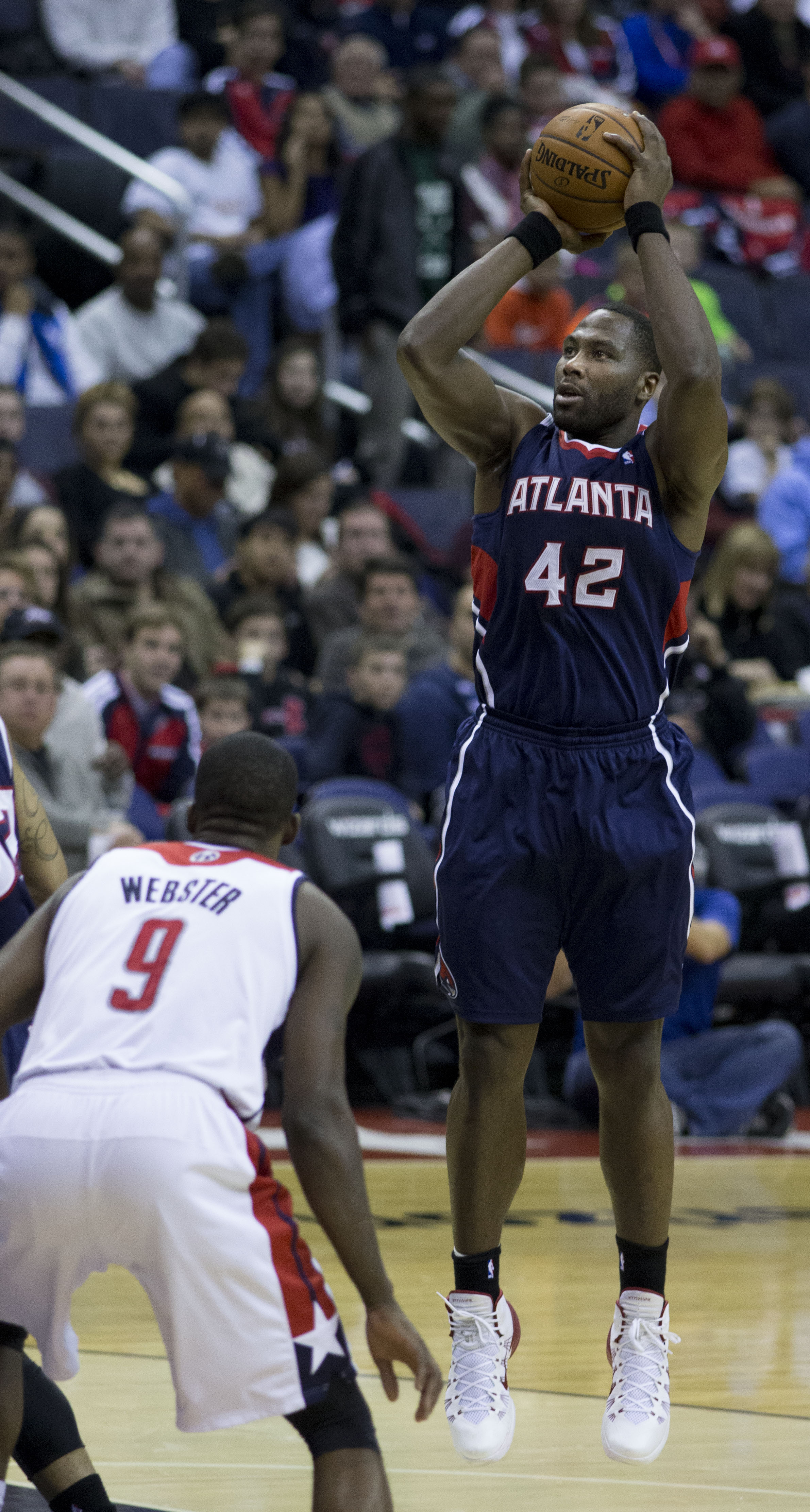 Hawks at Wizards 11/30/13